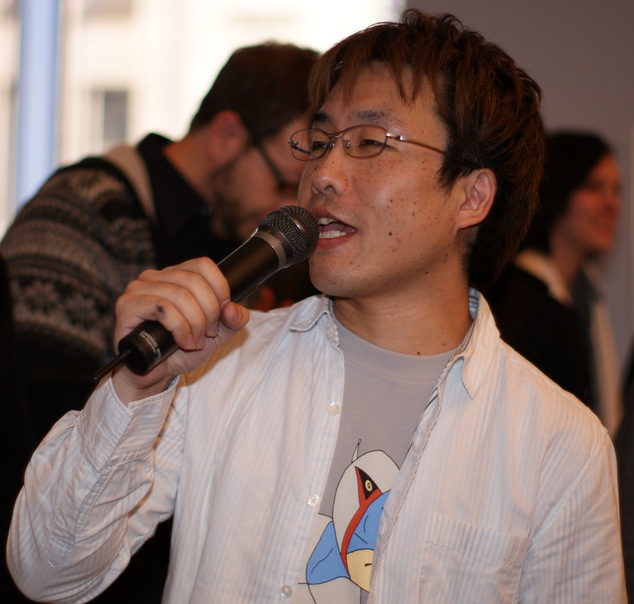 Capcom's producer Ryota Niitsuma (新妻良太) at the Nintendo World Store for the Tatsunoko vs. Capcom: Ultimate All-Stars launch event. Capcom's Community Manager Seth Killian (background, left) also attended.